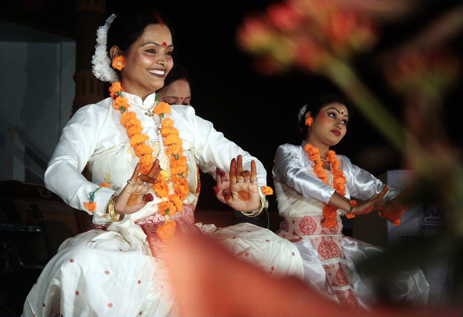 Devdashi Nritya; performed by artiste at the cultural programme organised by All India Radio Nagaon at Chandra Phukan Memorial Ampli Theatre Hall on Monday Evening.